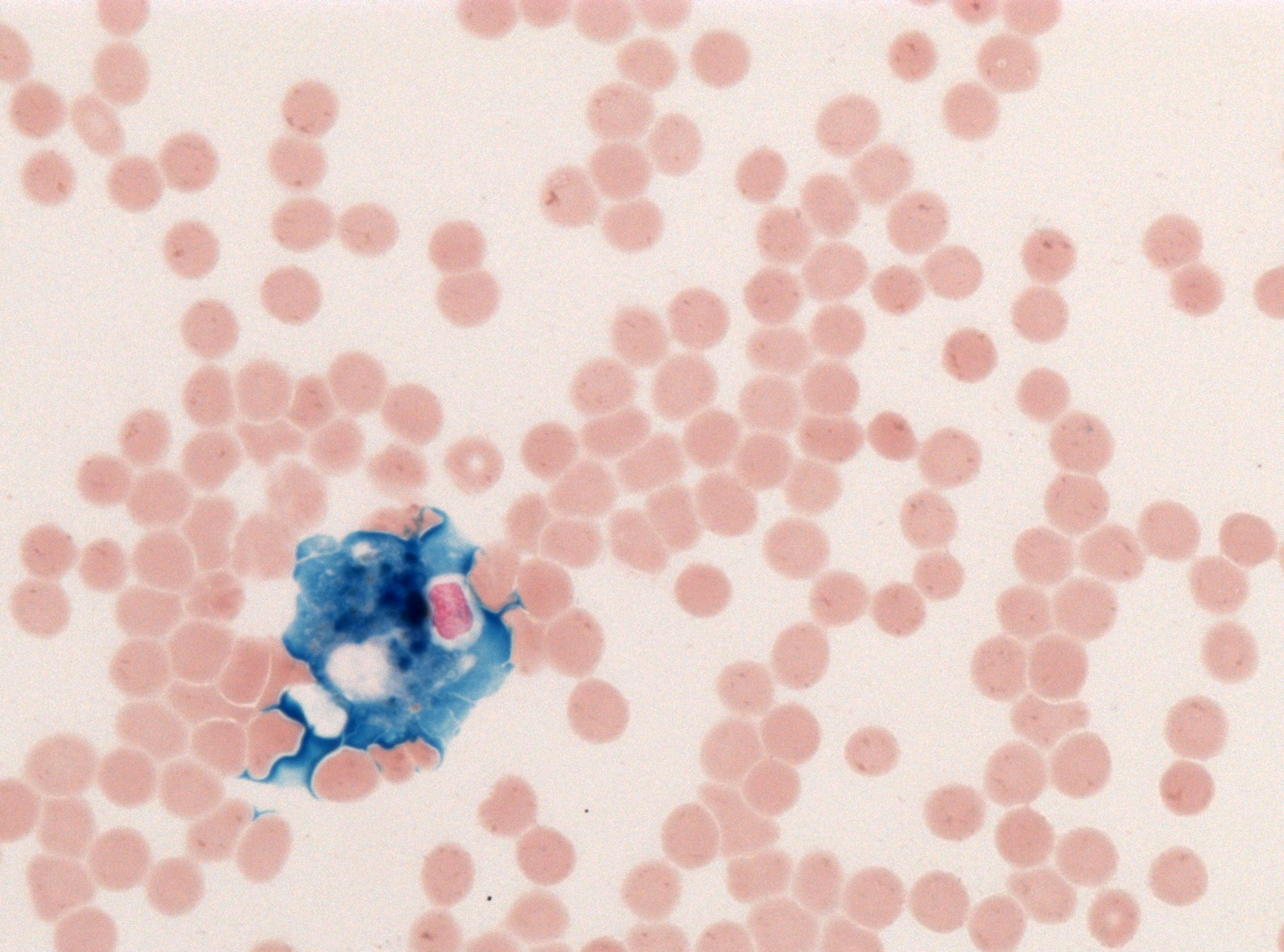 Cerebrospinal fluid specimen, prussion blue iron stain with siderophage and many erythrocytes